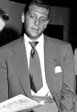 A cropped image of American songwriter David Rose (1910–90).